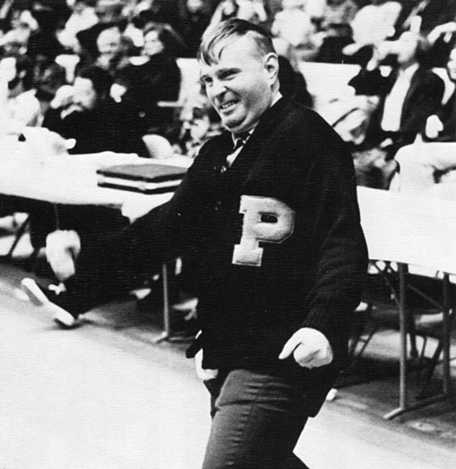 "Tiger" Paul Auslander, seen in 1974, served as an unofficial cheerleader at University of Pittsburgh Panthers basketball games in the 1970s and early 1980s. His sideline antics were well known to Pitt fans and would often rouse the crowd at Fitzgerald Field House.